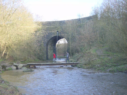 Waterhouses Aqueduct, Daisy Nook Country Park. The 80 feet high Waterhouses Aqueduct carried the Hollinwood Branch Canal across the River Medlock at Waterhouses now Daisy Nook Country Park